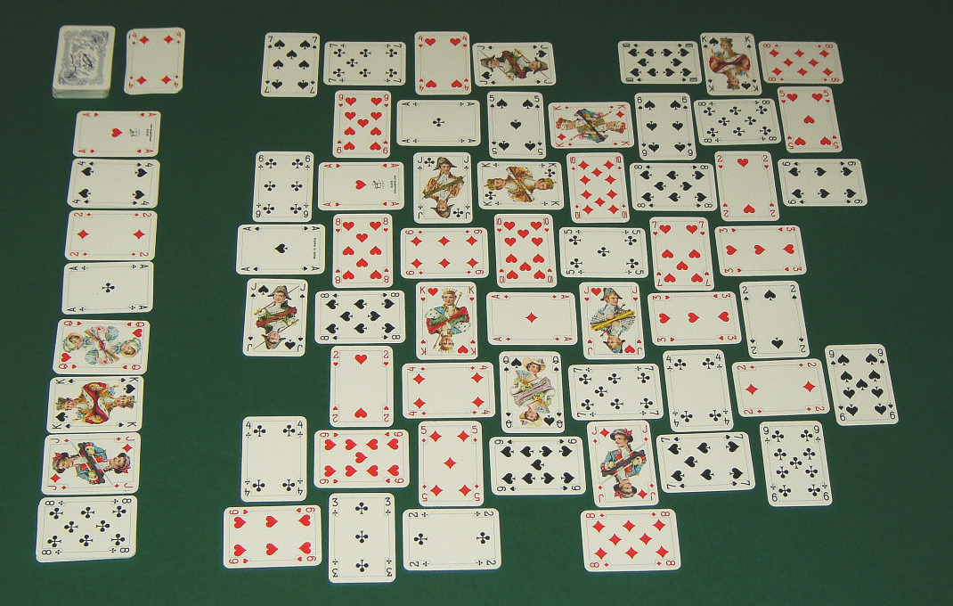 An already opened layout of Carpet patience (solitaire).